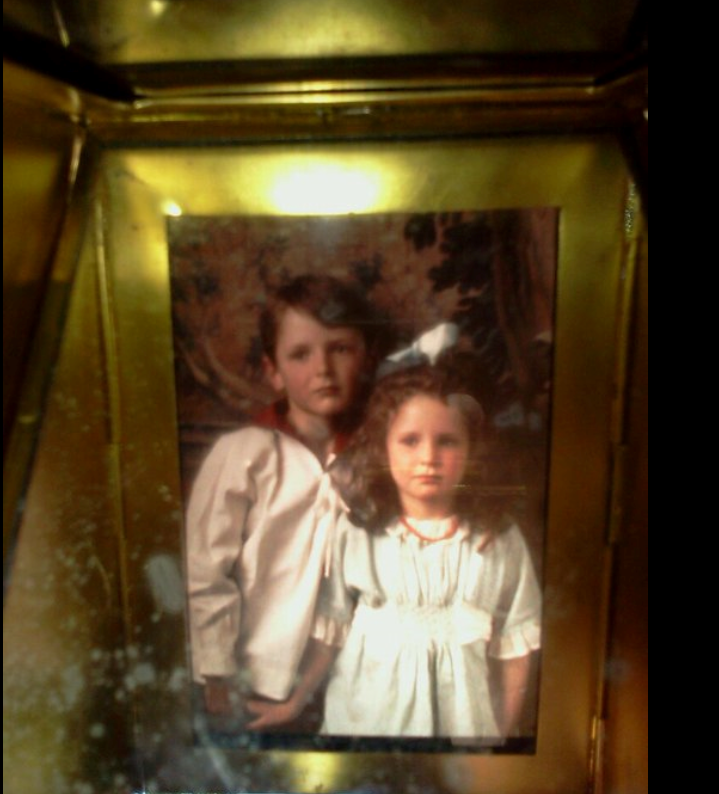 Photograph of result of antique photographic process. Shows Edward Cornelius Humphrey and his sister Alice as children in Louisville, Kentucky.